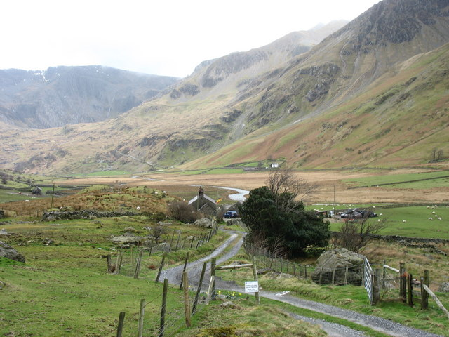 The Banner of Glyndwr flies above a Nant Ffrancon Farm. The Banner of Glyndwr (Lions on Gold and Red) is a very popular flag in certain nationalist circles. Glyndwr, a 15th C nobleman, led a successful rebellion against the Crown. He died in 1416.